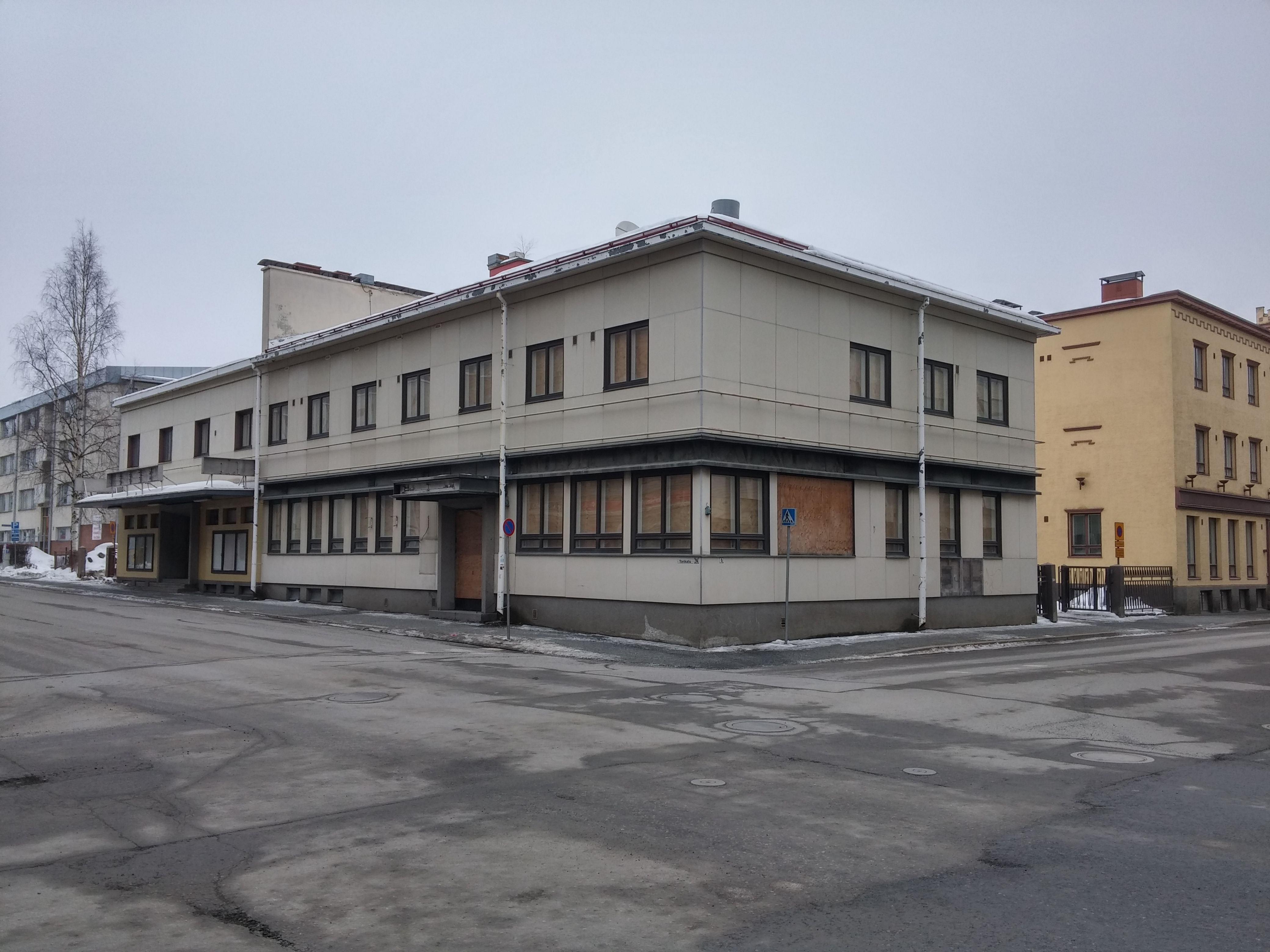 The building of restaurant Wanha Jokela in March 2016.